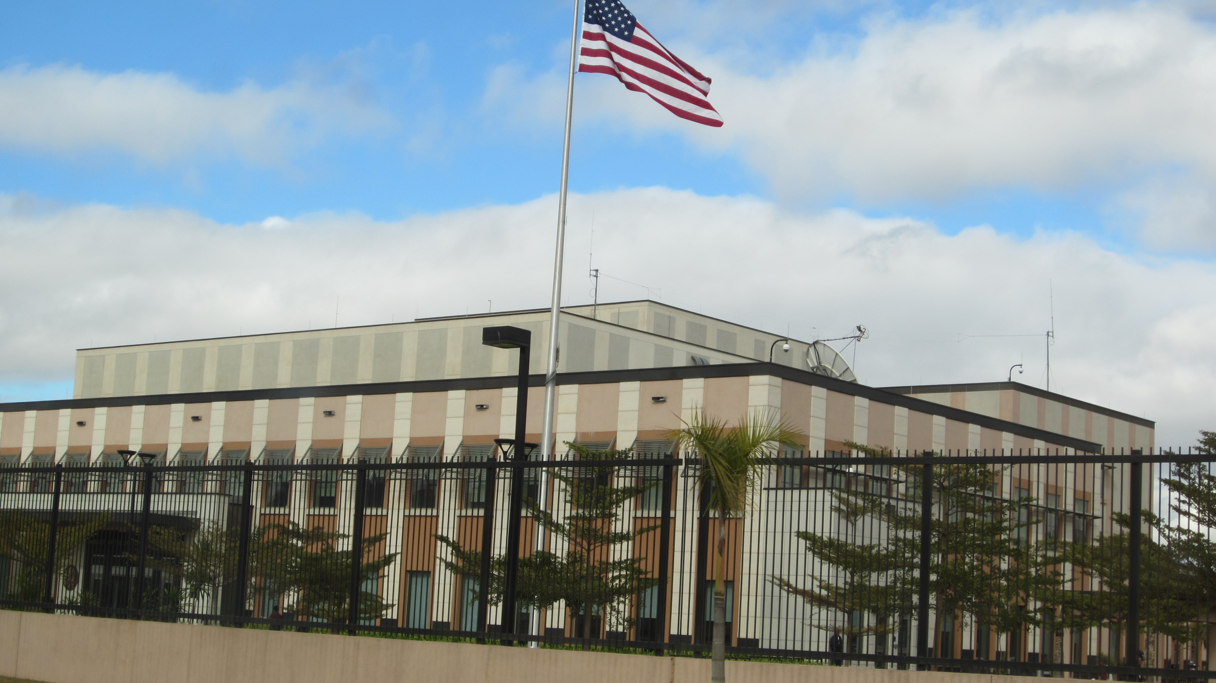 American